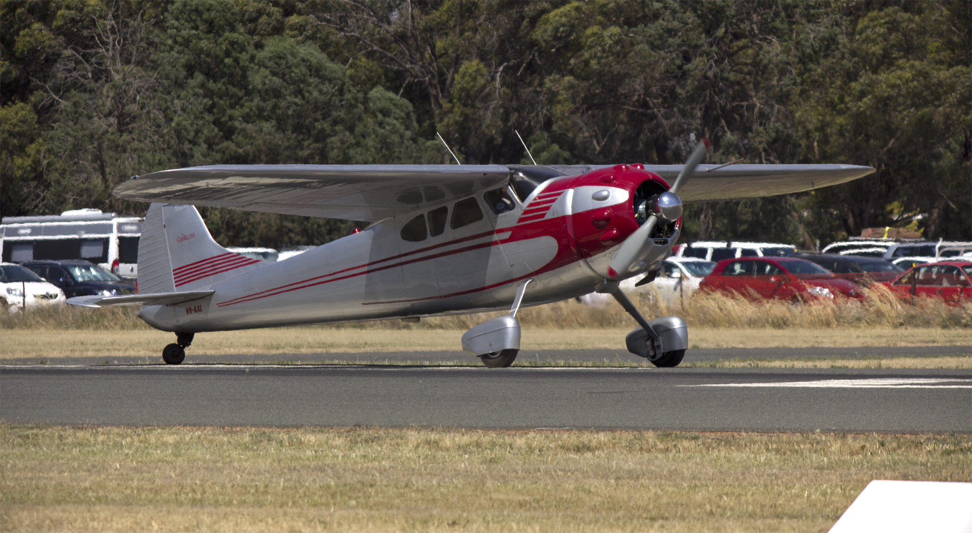 1948 Cessna 195B (VH-AAL) on Runway 36 at Temora Airport for Temora Aviation Museum's inaugural Warbirds Downunder Airshow.